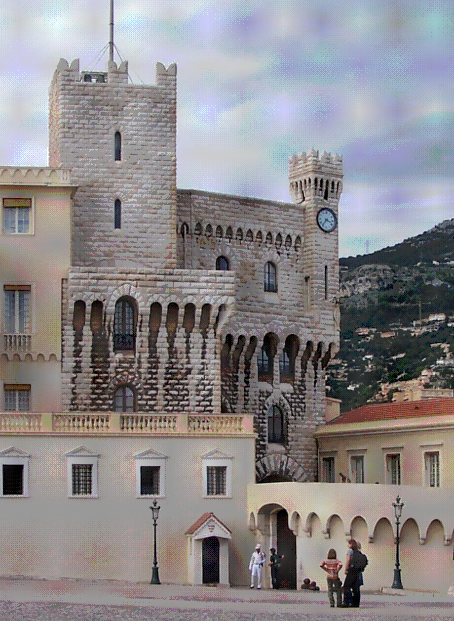 Edited deatil from Image:Panorama schloss monaco.jpg Uploaded to commons hereImage:Panorama schloss monaco.jpg At commons it bears the following licence and attribution to the photographer